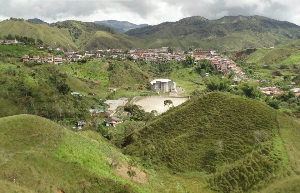 alejandria